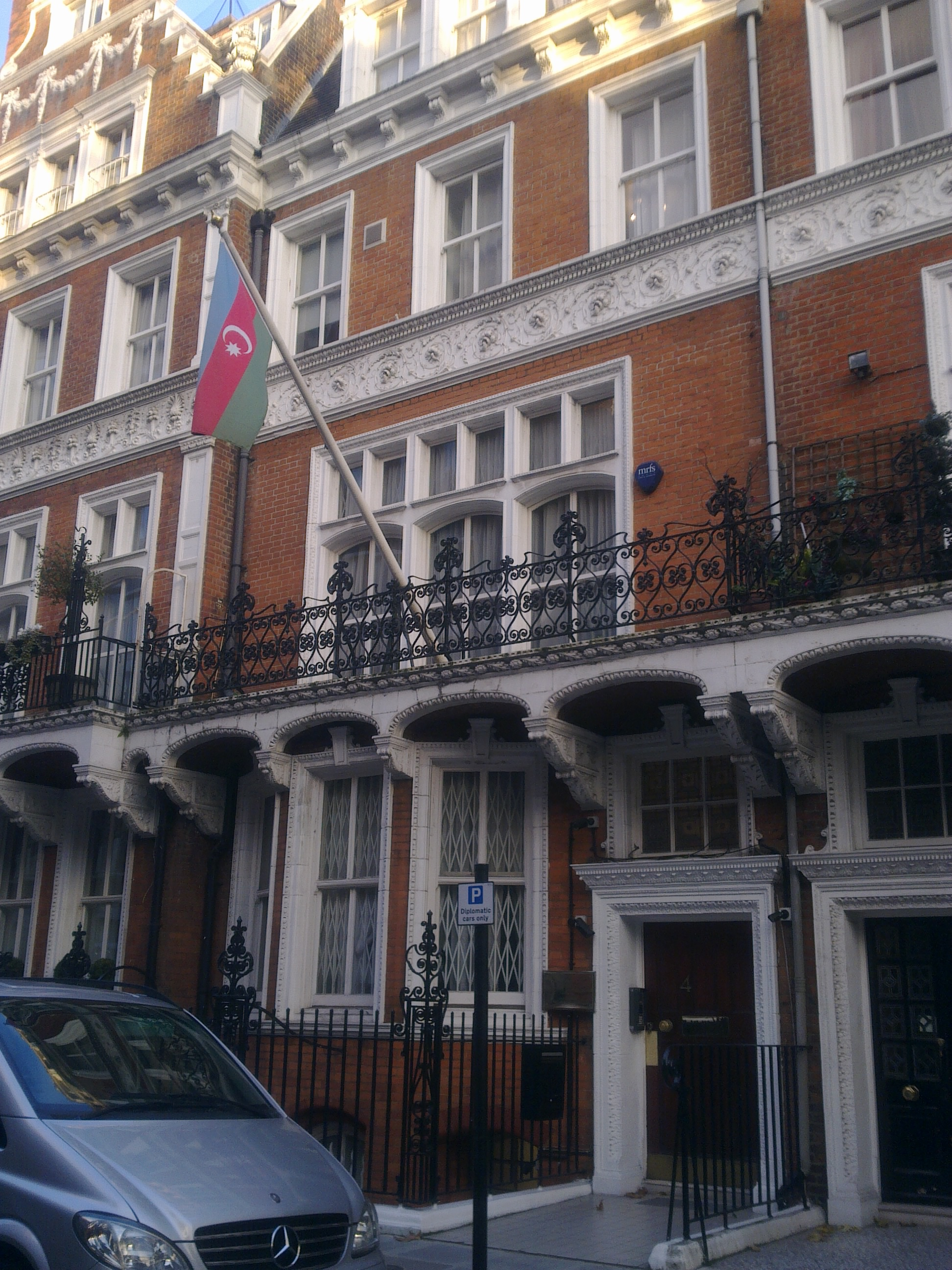 Embassy of Azerbaijan in London 1